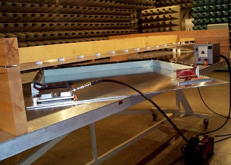 EMC test with stripline